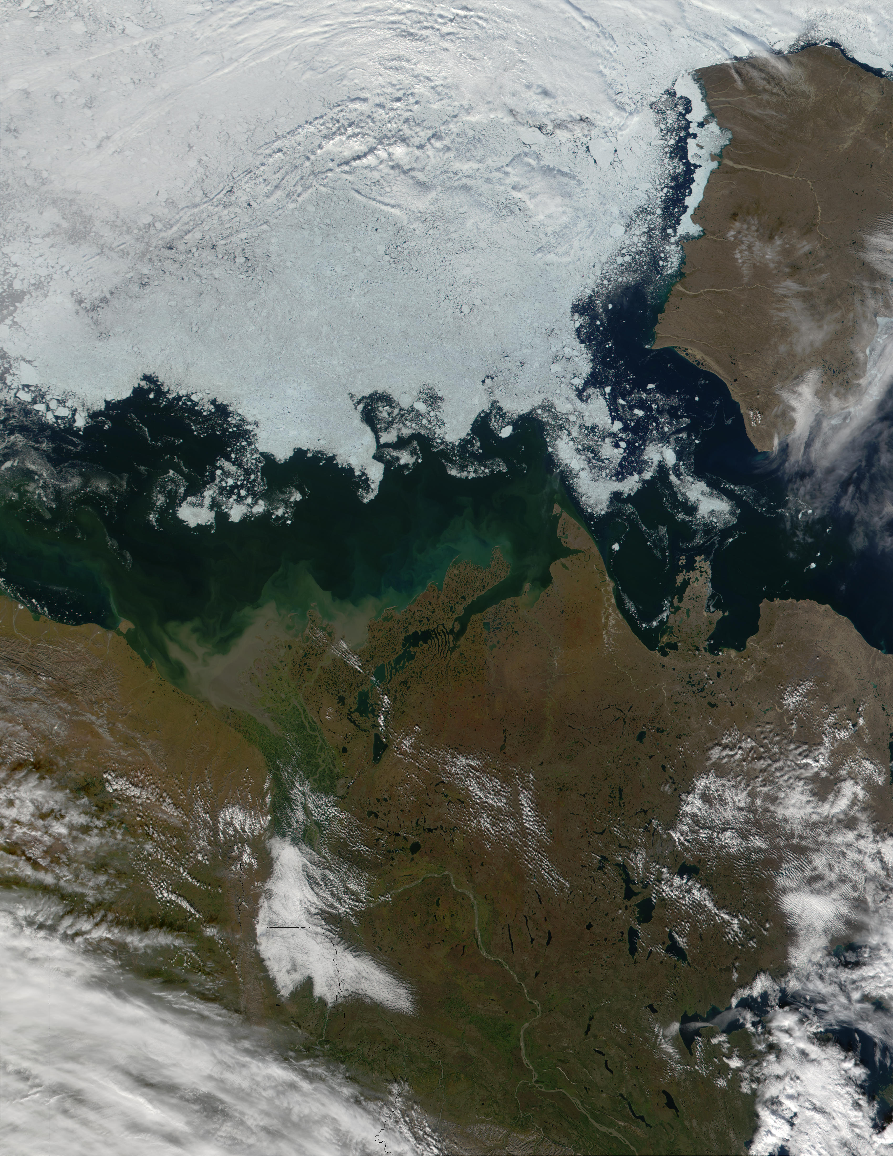 In Northwest Canada, the short summer is drawing to a close, and this MODIS true-color image of eastern Alaska (far left), the Yukon Territory (left), the Northwest Territory (center and right), and Banks Island (upper right) reveals sea ice not far from land. The Mackenzie River, Canada's longest river, appears as a strip of brown running from the lower right northwestward, where it empties into Mackenzie Bay. Along the river's course, vegetation stands out in green, and the Bay appears awash in sediment near the river's mouth. Farther into the Bay, darker swirls may indicate a phytoplankton or algal bloom.